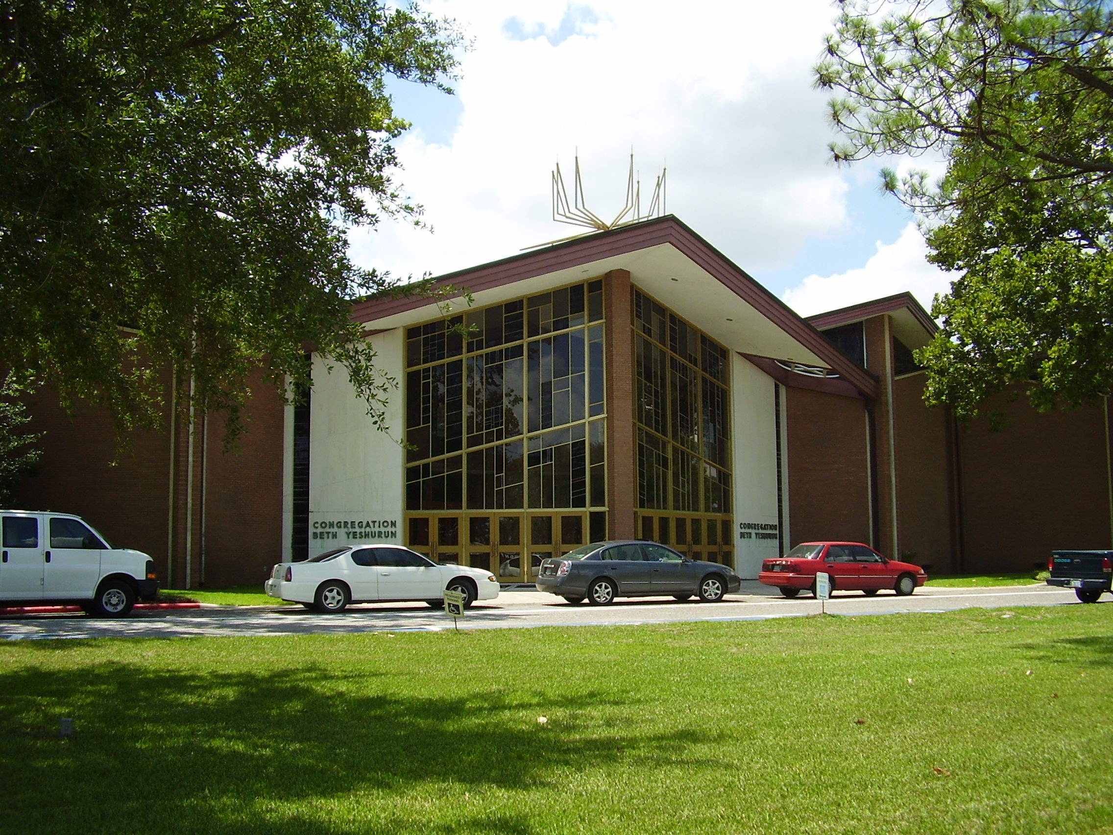 Congregation Beth Yushurun